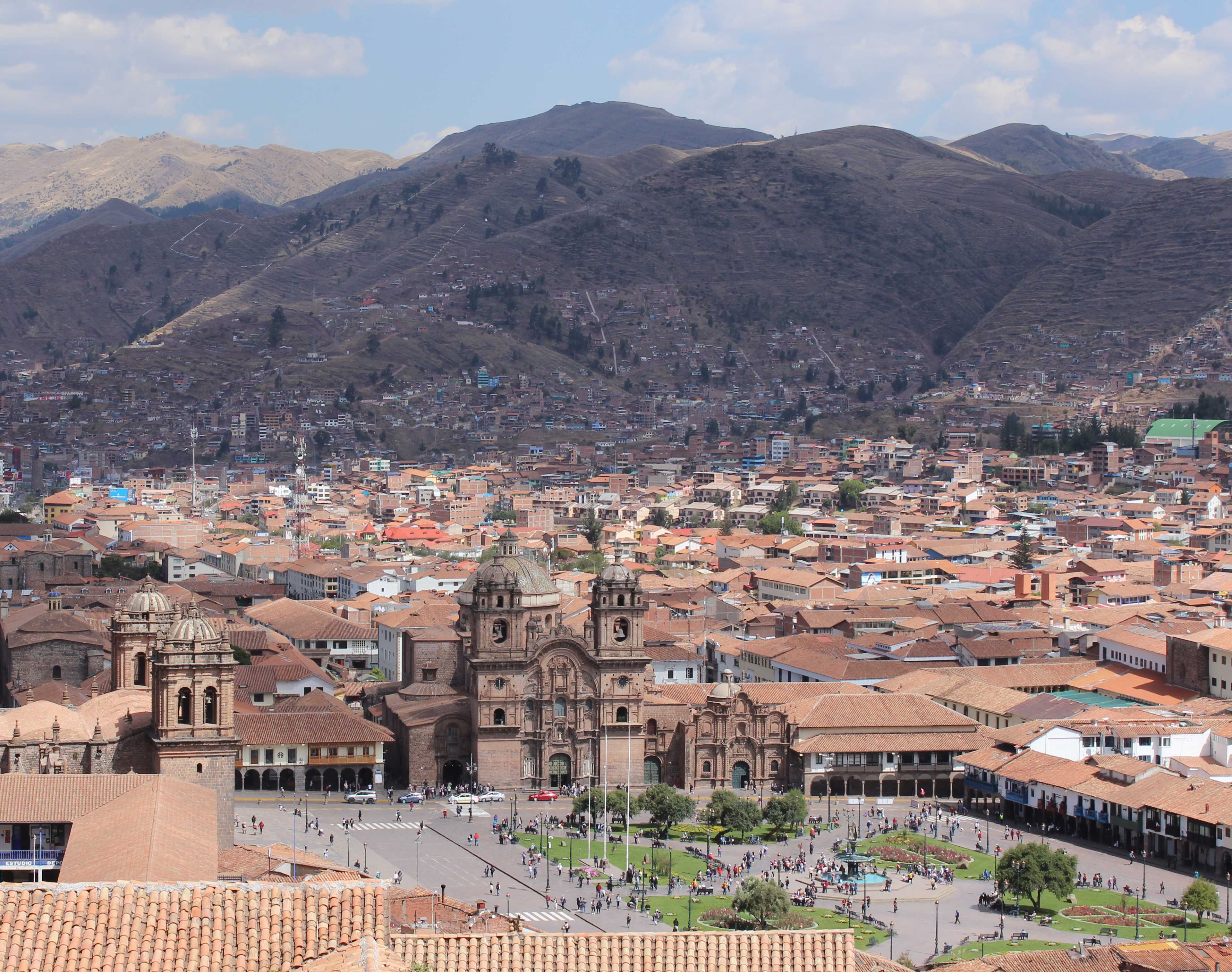 Cusco